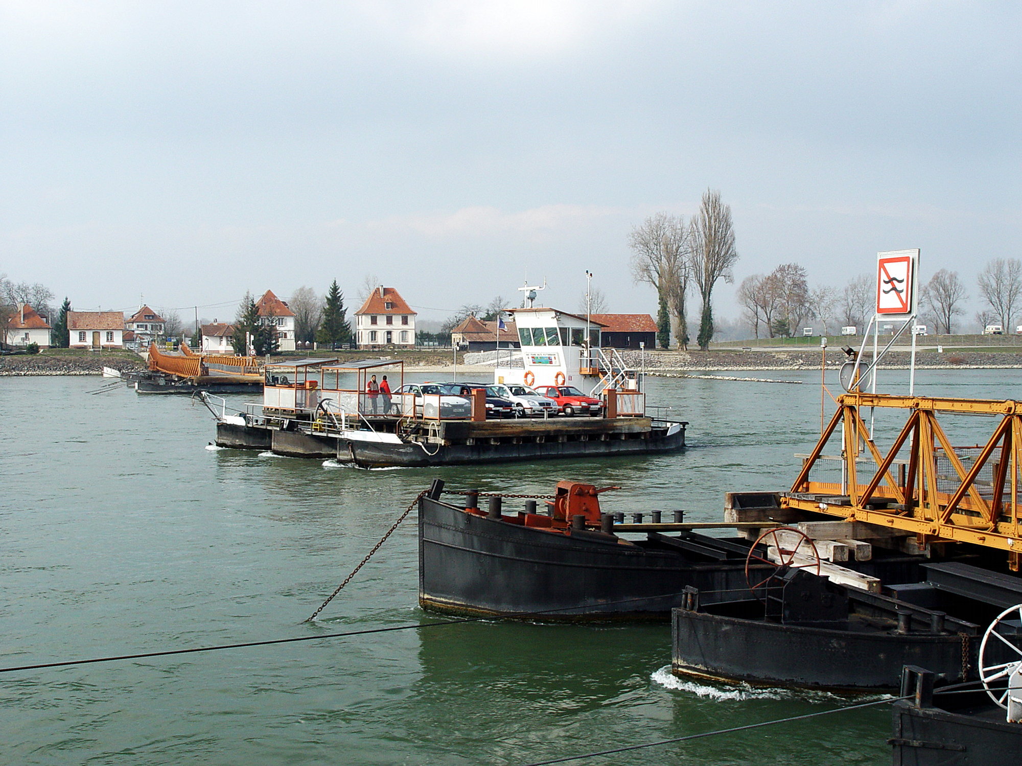 old ferry over the Rhine in Plittersdorf